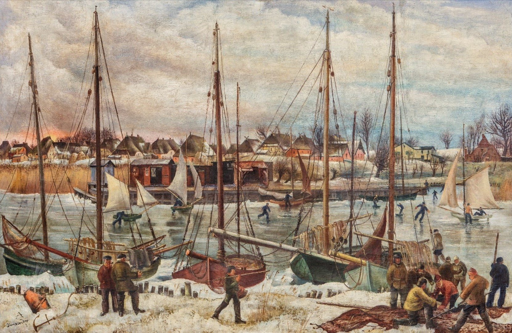 Winter harbor on the Fischland (Althagen/Ahrenshoop)